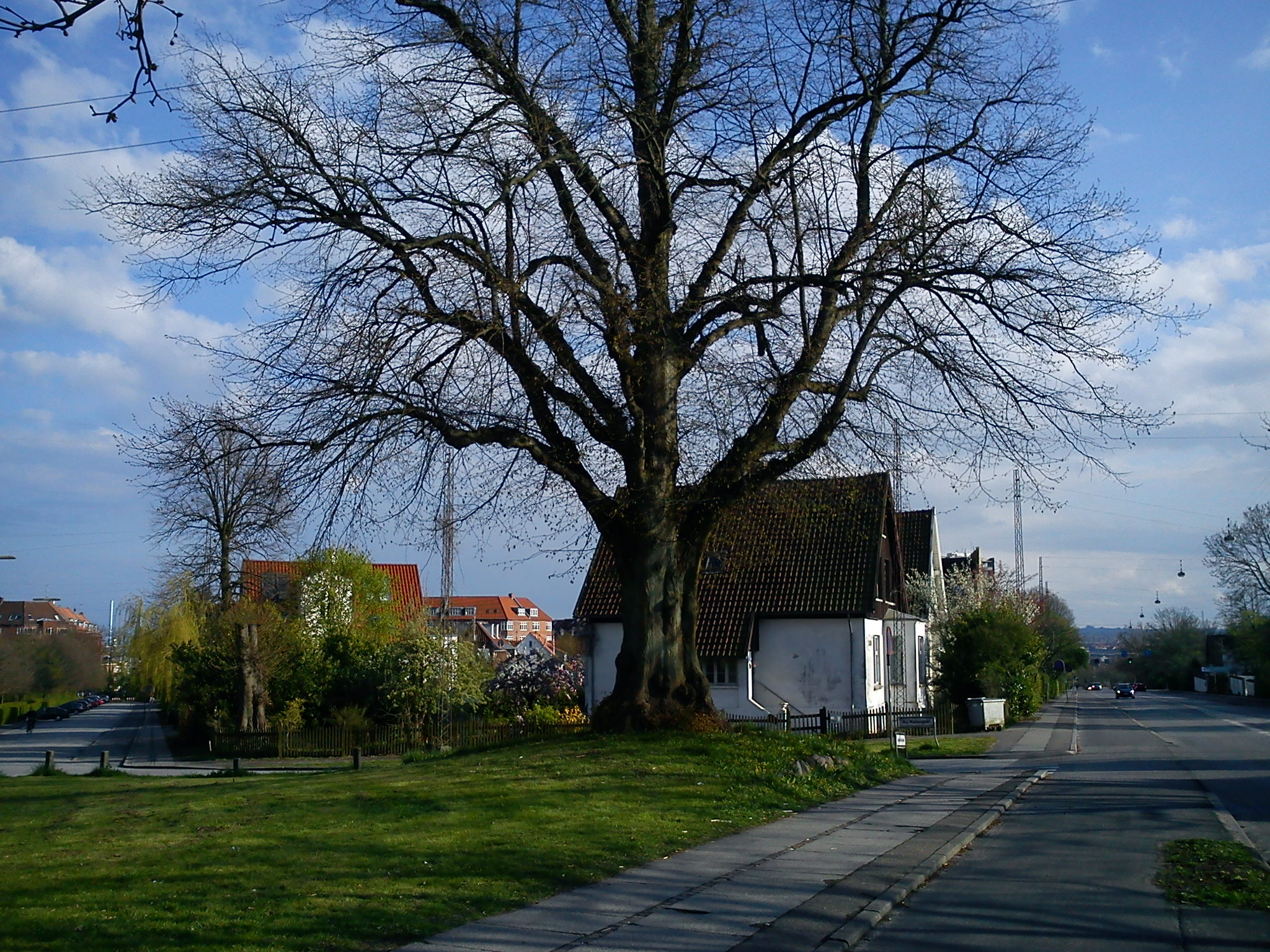 The small stone-set elevation with the large tree is the former gallows hill of Aarhus. When it was in use in the Middle Ages up to some point in the 1700s, it was placed far out of town.